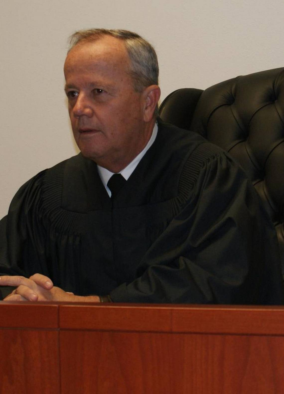 James L. Pohl Original caption: “Army Col. James L. Pohl, the chief of the military commissions judiciary, on the bench at the U.S. Navy base at Guantánamo Bay, Cuba, in Pentagon handout photo. Department of Defense”